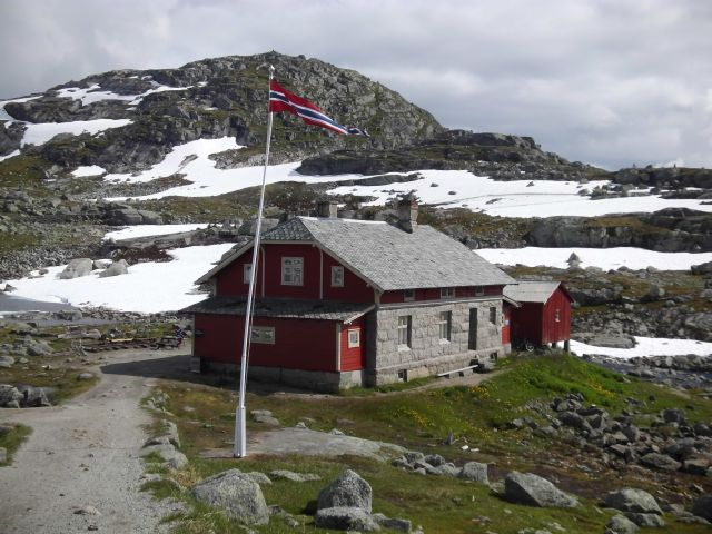 Former Navvvies house at Fagernut, Rallarvegen, Bergen Line, Norway.